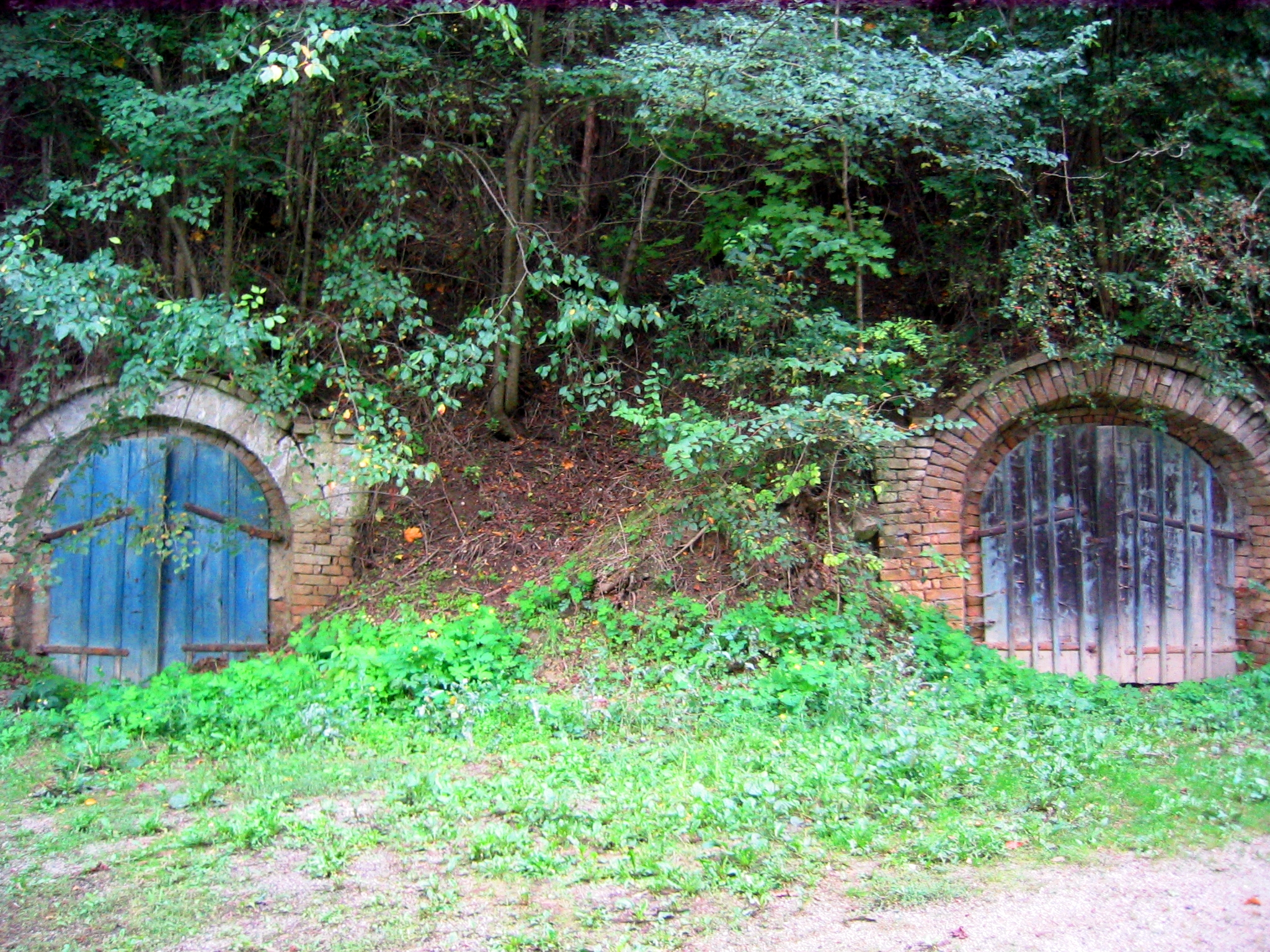 Mühlbergkellergasse Sitzendorf Objekt 12